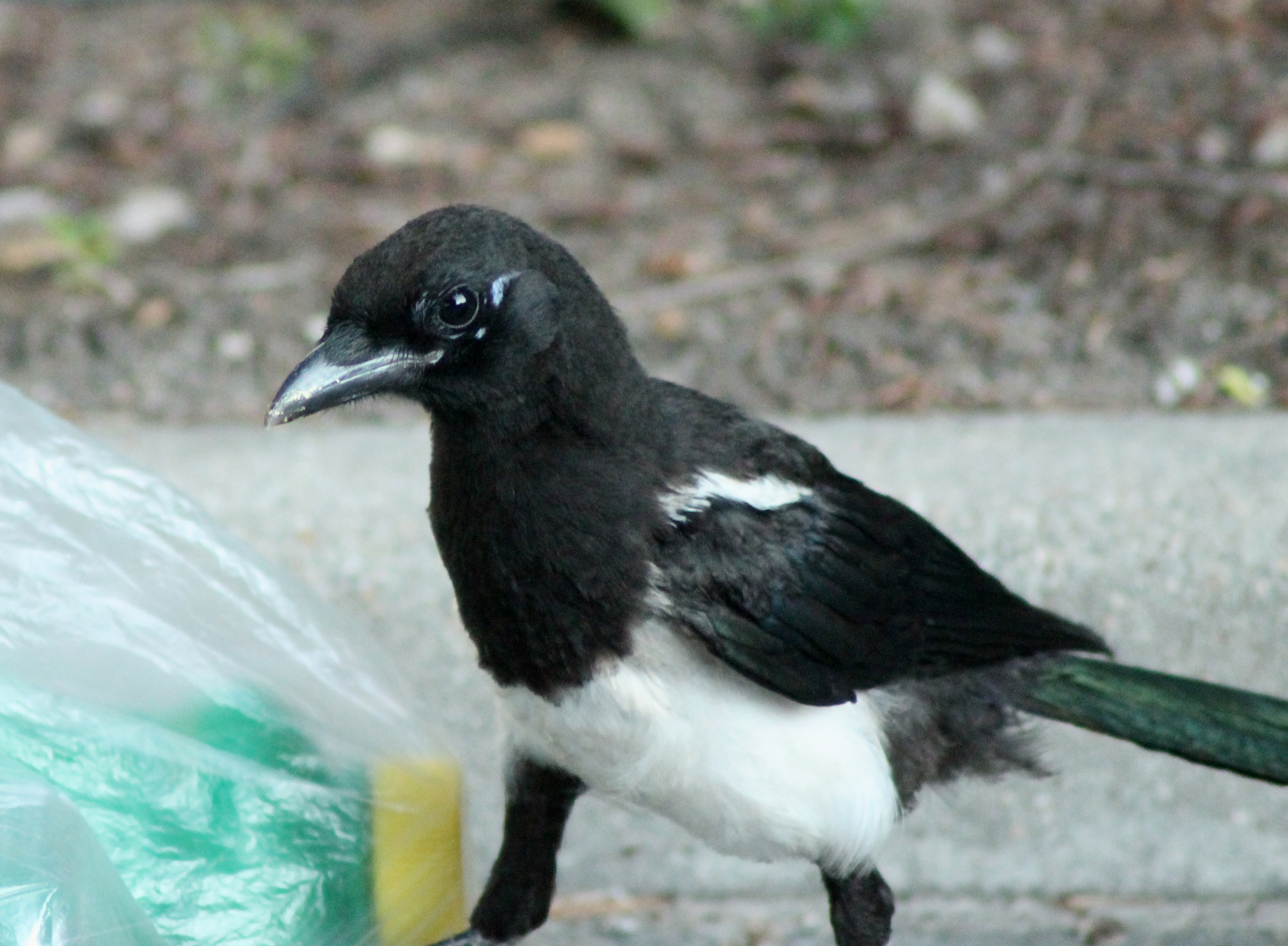 A juvenile European Magpie (Pica pica) in Madrid (Spain).